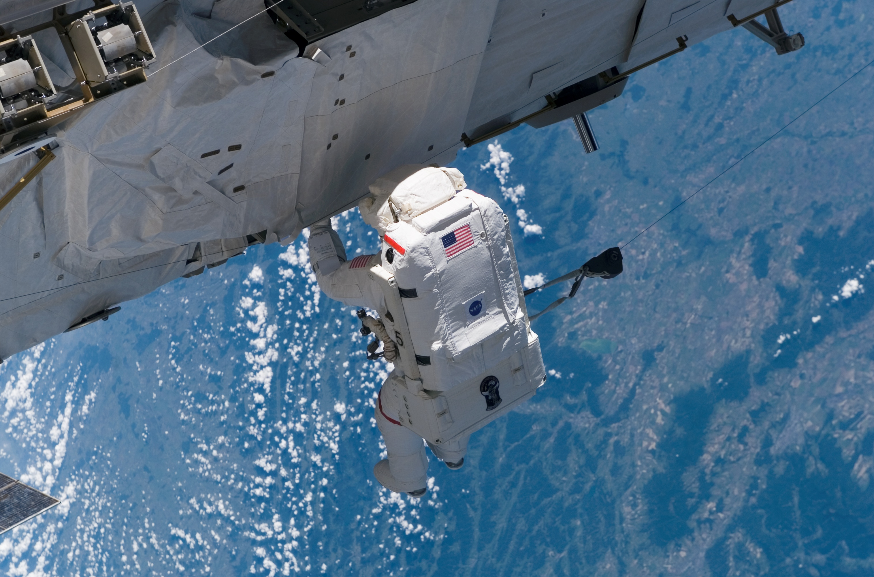 It was "installation day" on the International Space Station on September 12, 2006. The Atlantis and Expedition 13 crews worked on attaching the P3/P4 truss during the first of three scheduled spacewalks by STS-115 shuttle crew members. Astronaut Joseph R. Tanner, mission specialist, pictured as he translated along the station hardware, was joined by astronaut Heidemarie M. Stefanyshyn-Piper, mission specialist.